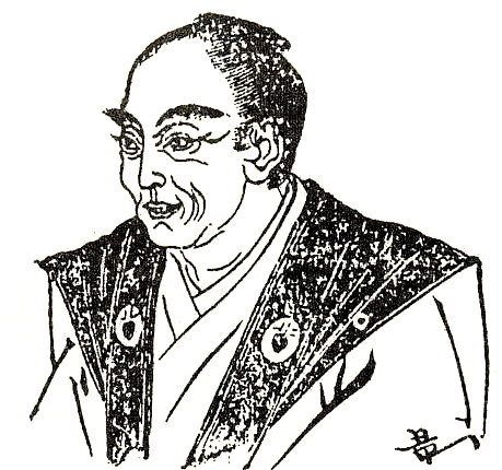 Fujita Toko（藤田東湖）was the politician who worked in the last years of the Edo period.This Picture was carried on the book of the name, " the imperial biographic dictionary （帝国人名辞典）".This book was published in 1907.